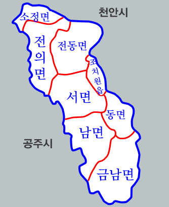 Yeongi-gun divison Map